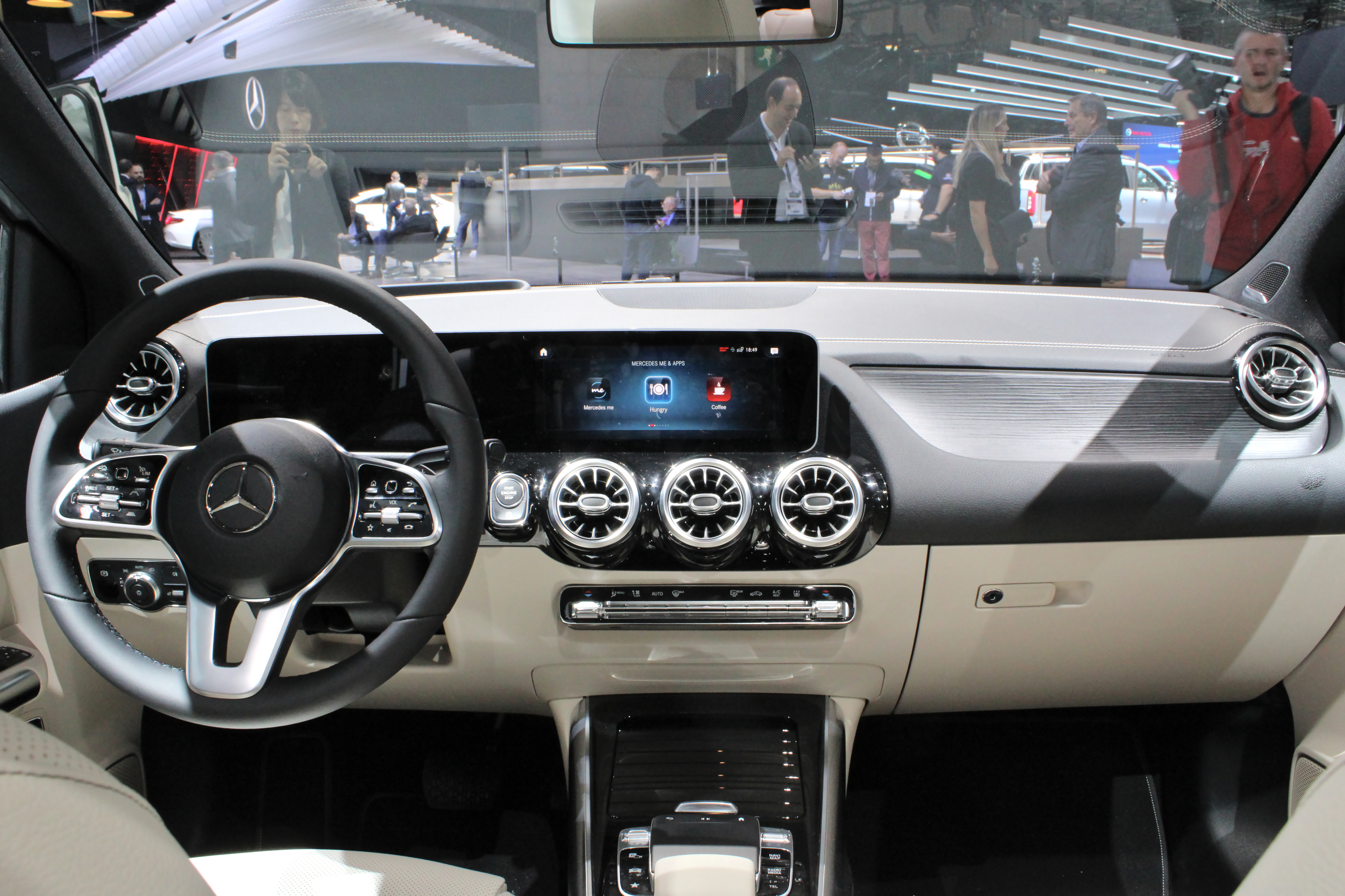 Mercedes-Benz W 247 at Paris Motor Show 2018